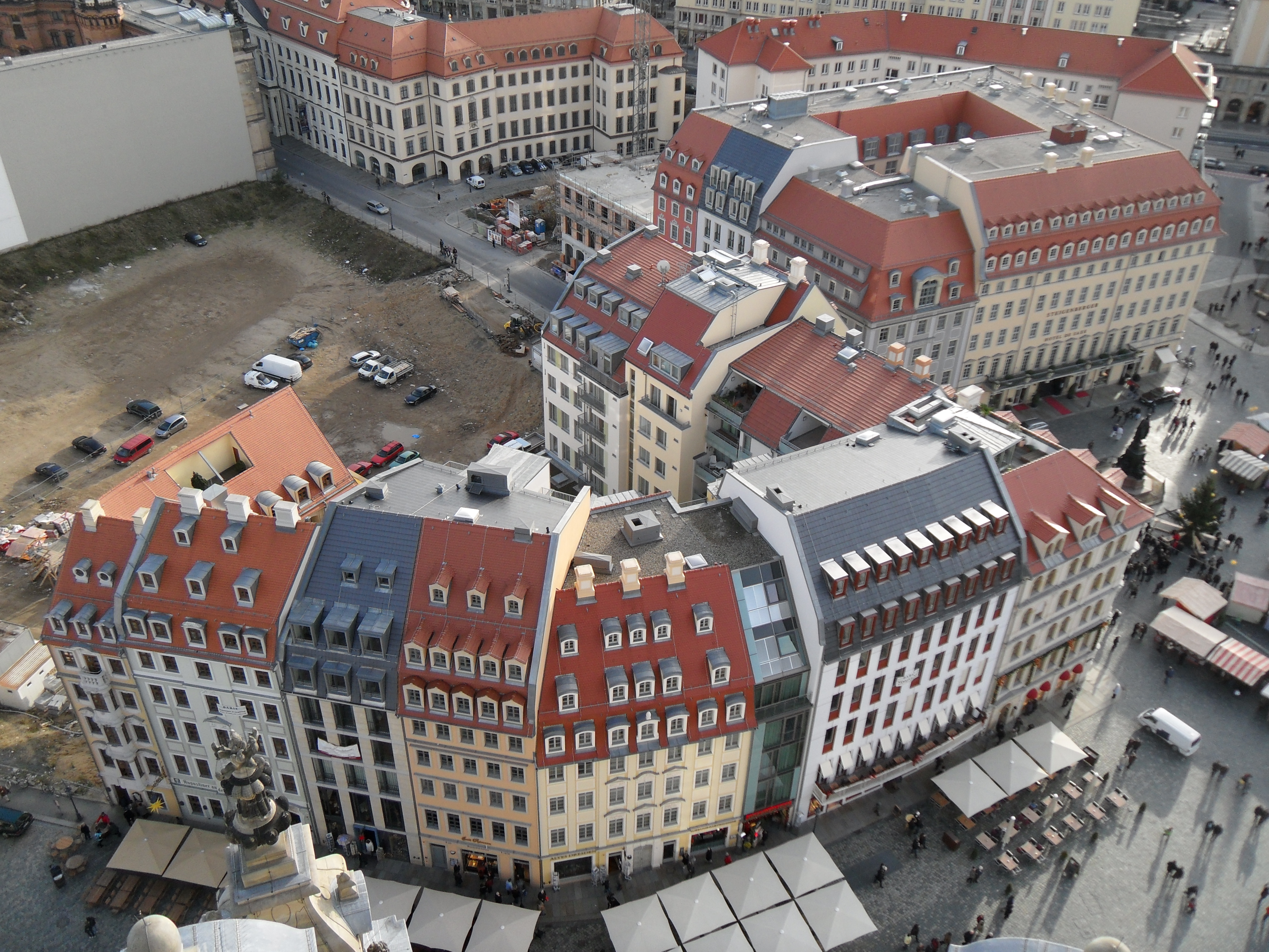 Quarters III and IV (behind) of Neumarkt (Dresden), overview from Frauenkirche